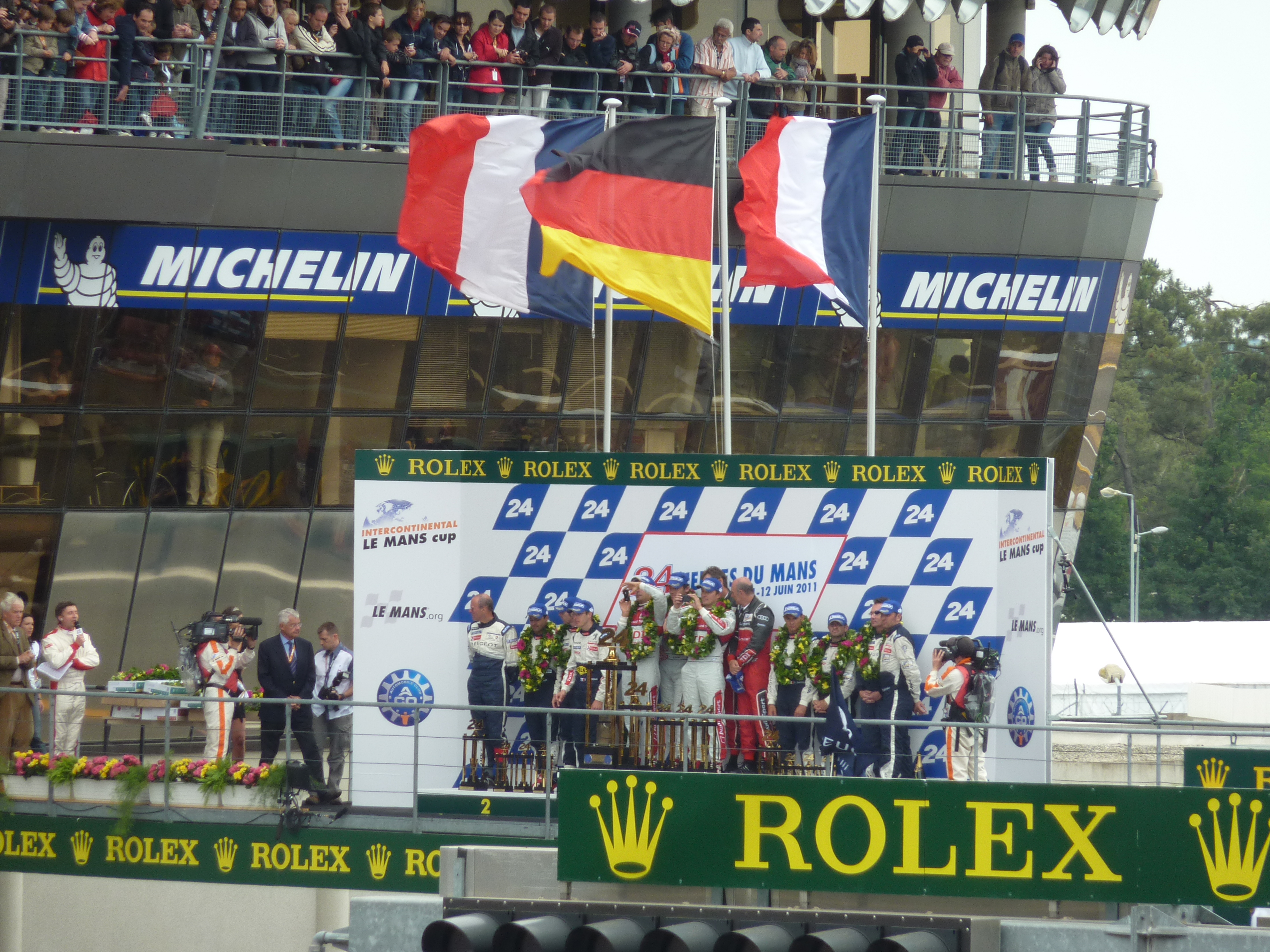 The Pugs were 2nd, 3rd and 4th.